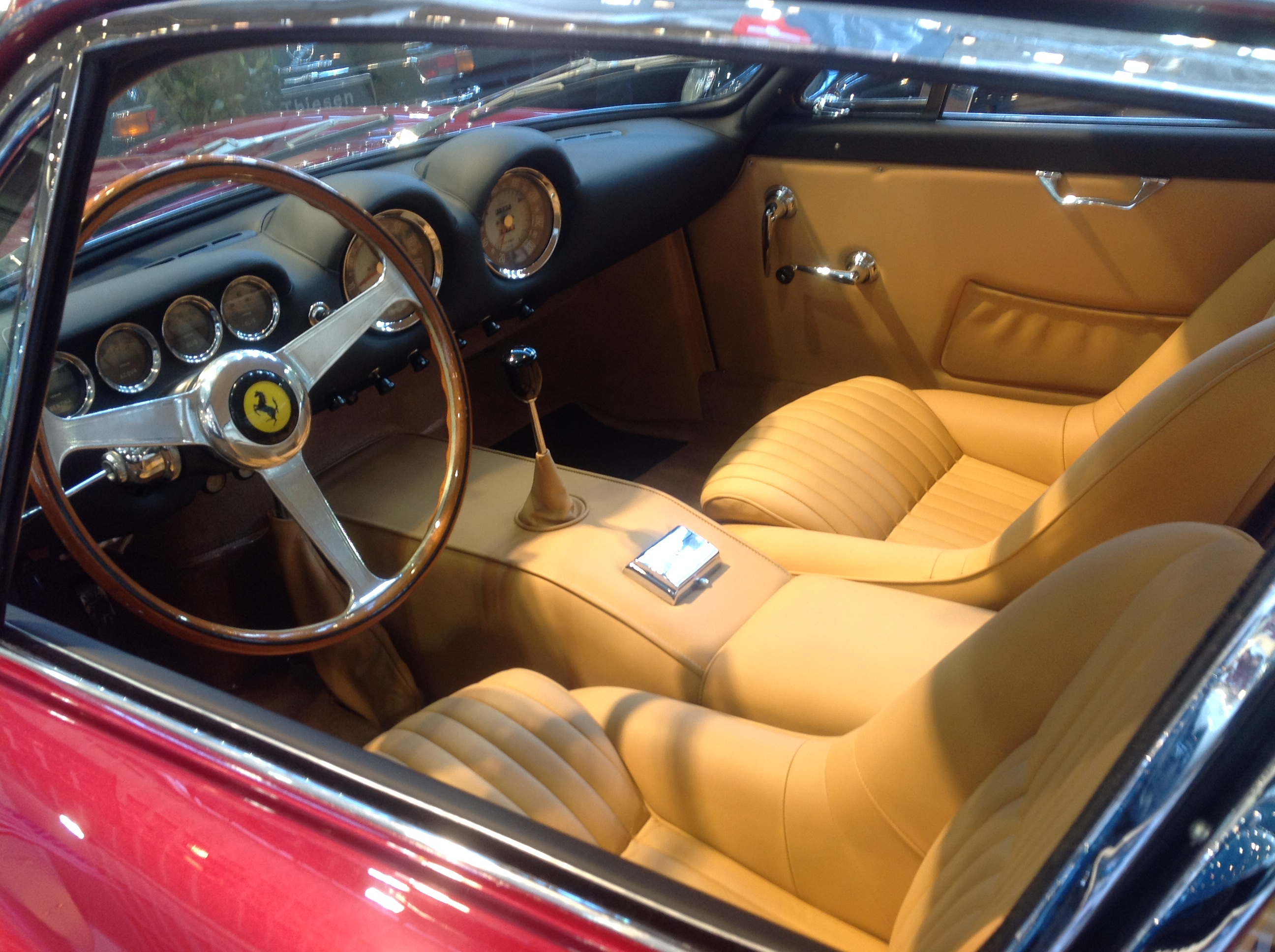 A lovely colour. My favourite Ferrari alongside the Dino 246GT.